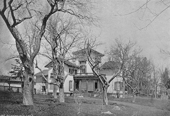 Bellevue, the former residence of John A. Macdonald, a Father of Confederation and the first Prime Minister of Canada. Located in Kingston, Ontario, Canada.